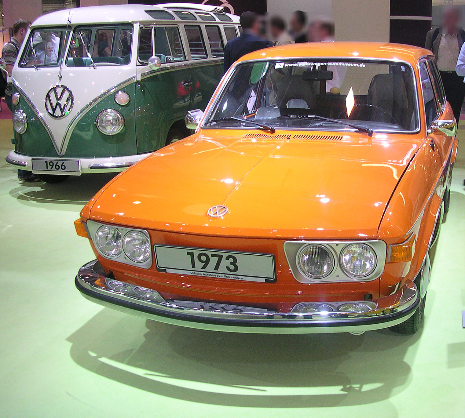 Essen Techno-Classica 2007, VW Variant 412